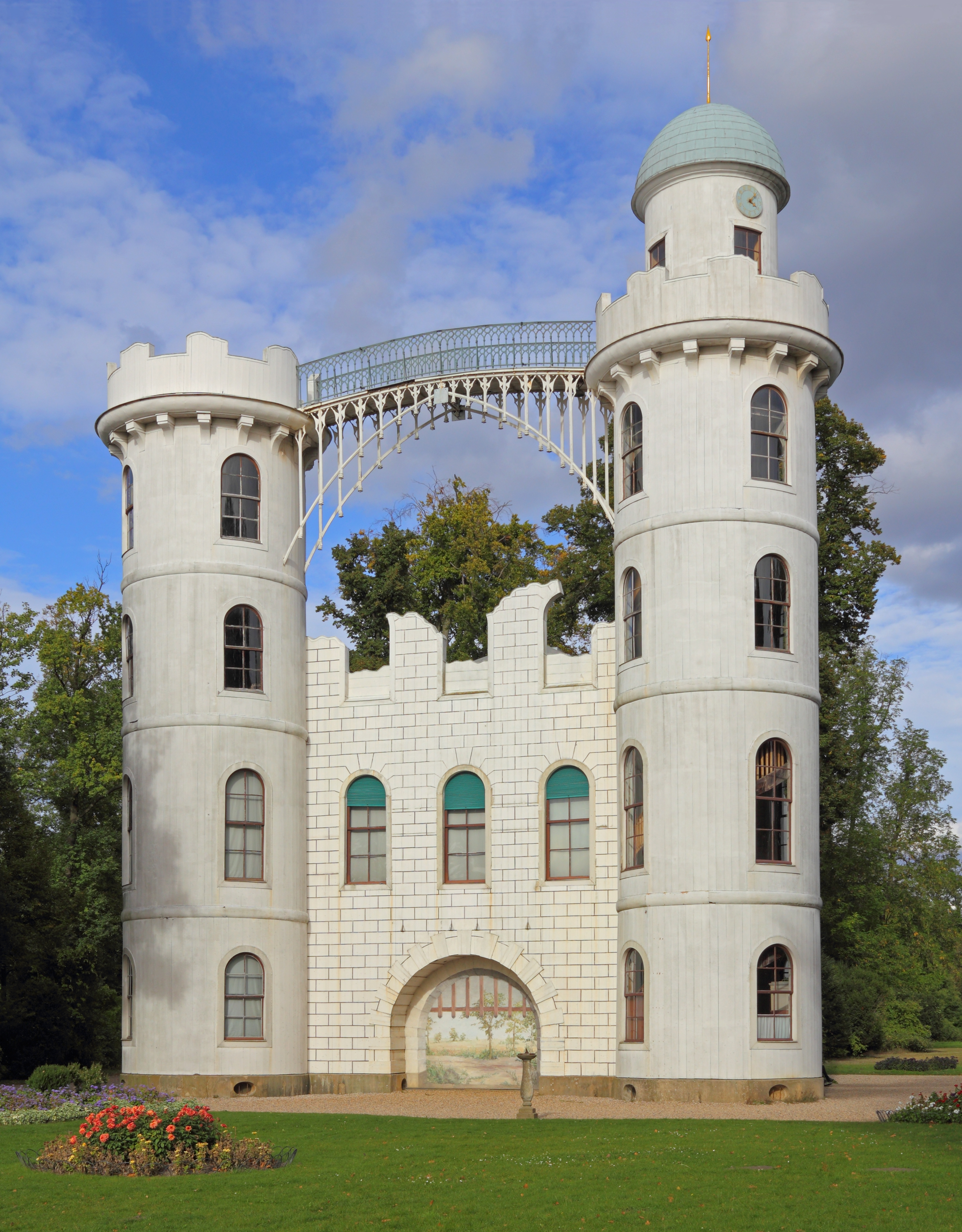 UNESCO World Heritage site „Peacock Island“ in Berlin-Wannsee. The Pfaueninsel Castle.